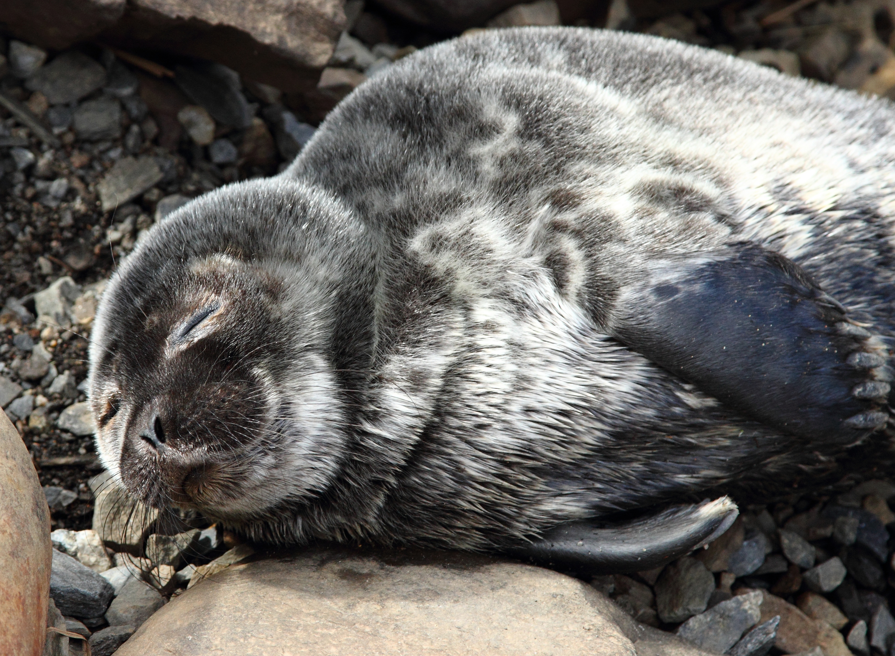 A young Ringed Seal (of the Gulf of Bothnia) (Pusa hispida botnica) in the Taskisenperä marina in Oulu, Finland.